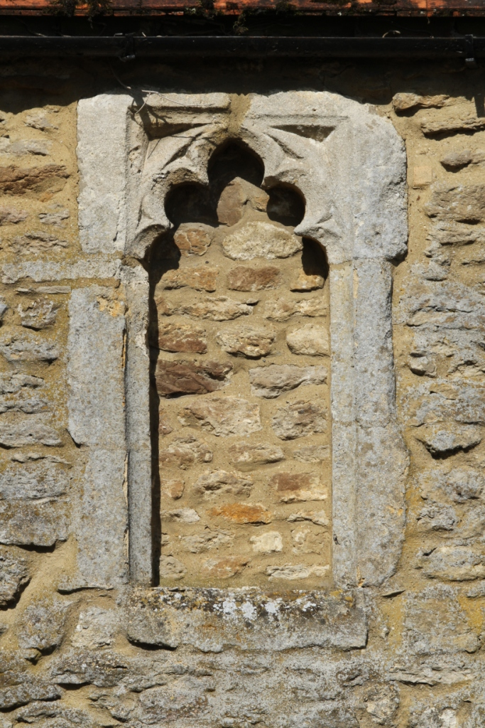 Minchery Farmhouse, Littlemore, Oxfordshire: blocked 15th-century cinquefoil window on the first floor on the east side